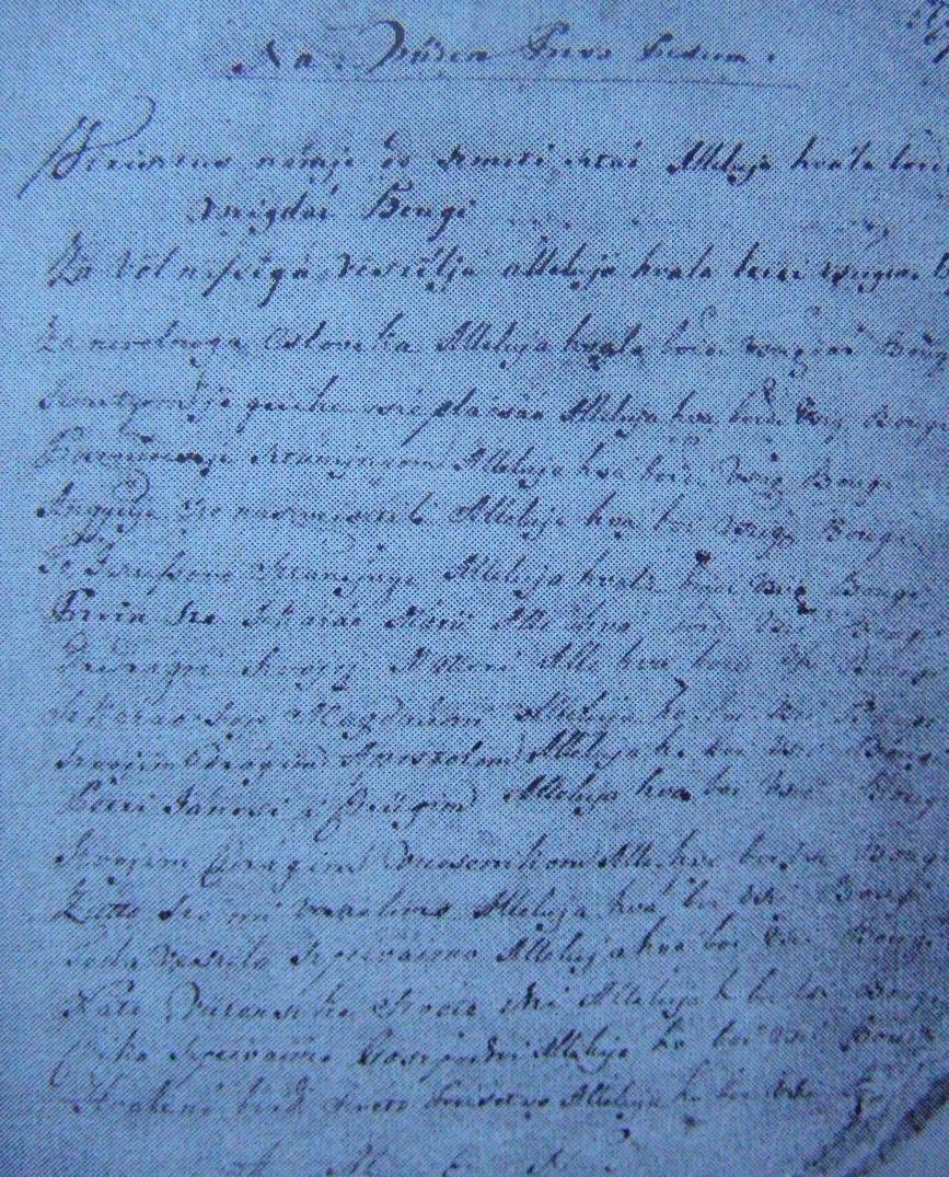 The hymn-book of István Pintér (1864)